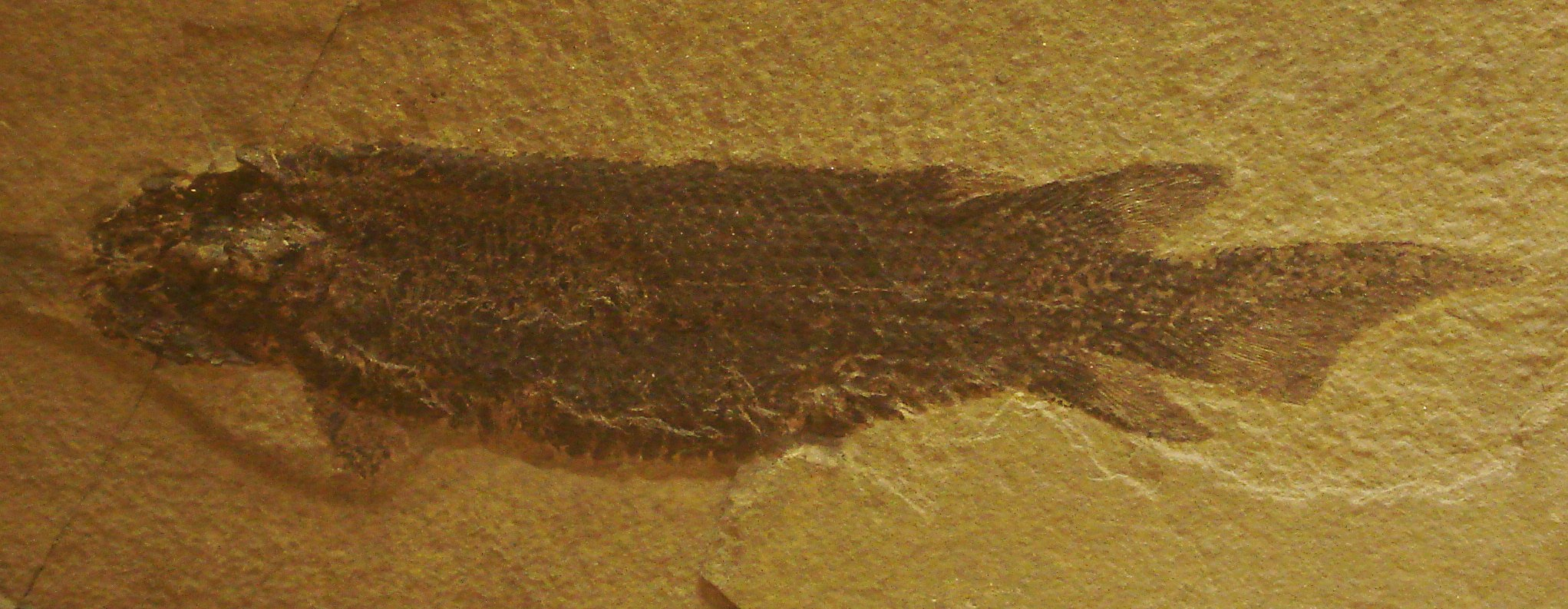 fossil of thursius